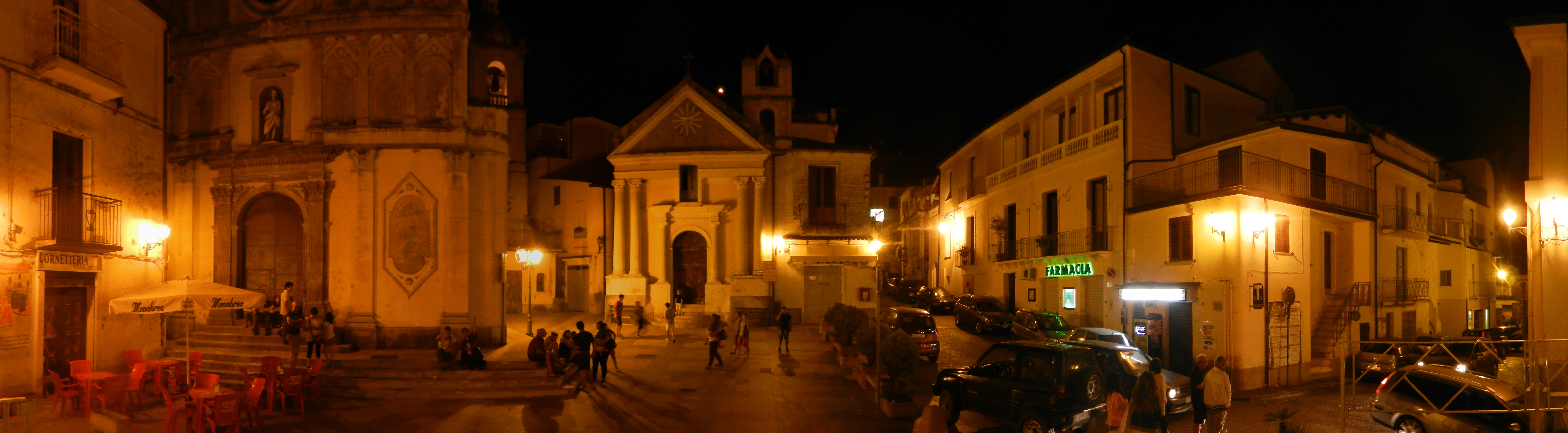 The main square of Nocera Terinese.